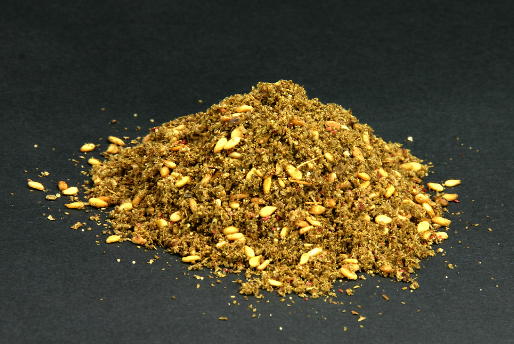 Za'atar, mixture of spices